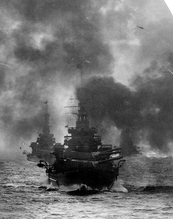 The Royal Navy battlecruiser HMS Repulse firing her 38.1 cm guns during maneuvers off Portland, England (UK), circa the later 1920s. The next ship astern is HMS Renown. Photographed from HMS Hood.